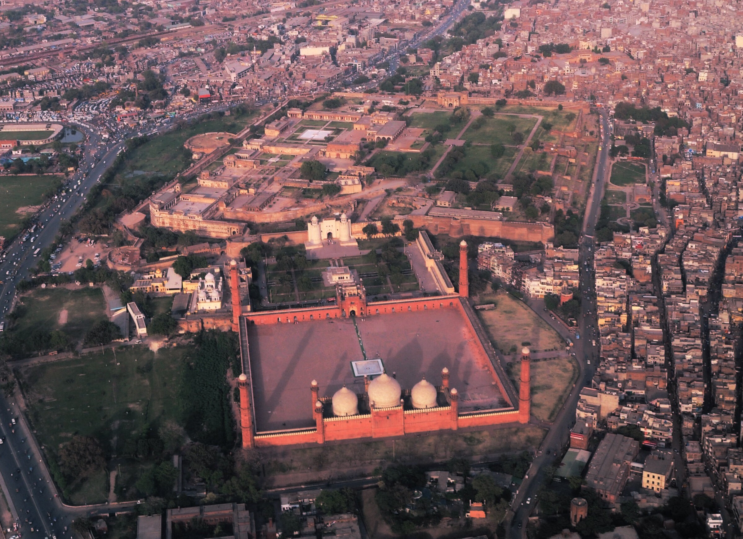 Badshahi Mosque (King’s Mosque) This is a photo of a monument in Pakistan identified as the PB-44